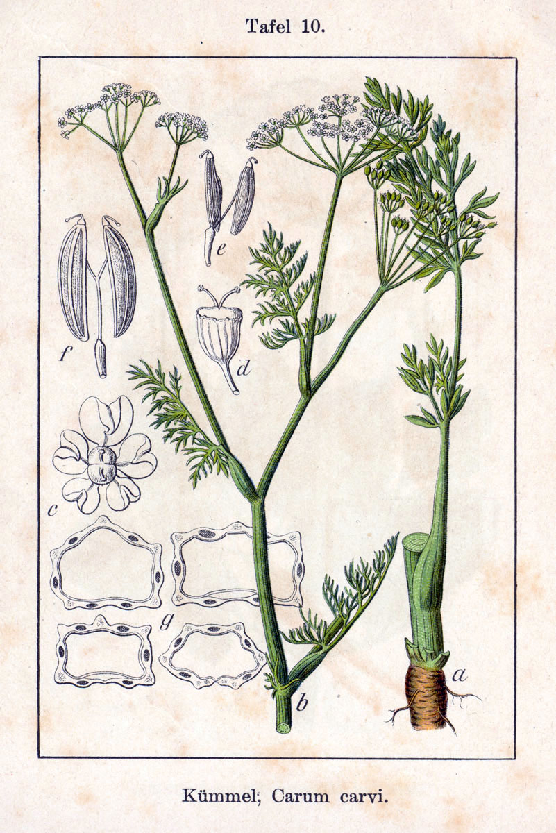 Carum carvi L. Original Description Kümmel, Carum carvi